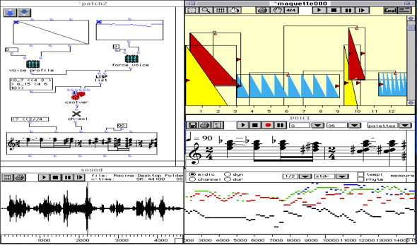 OpenMusic screenshot